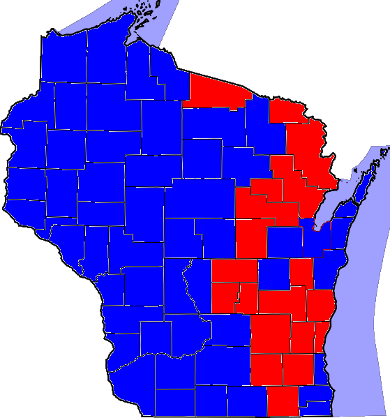 2004 Wisconsin Senate election results by county.